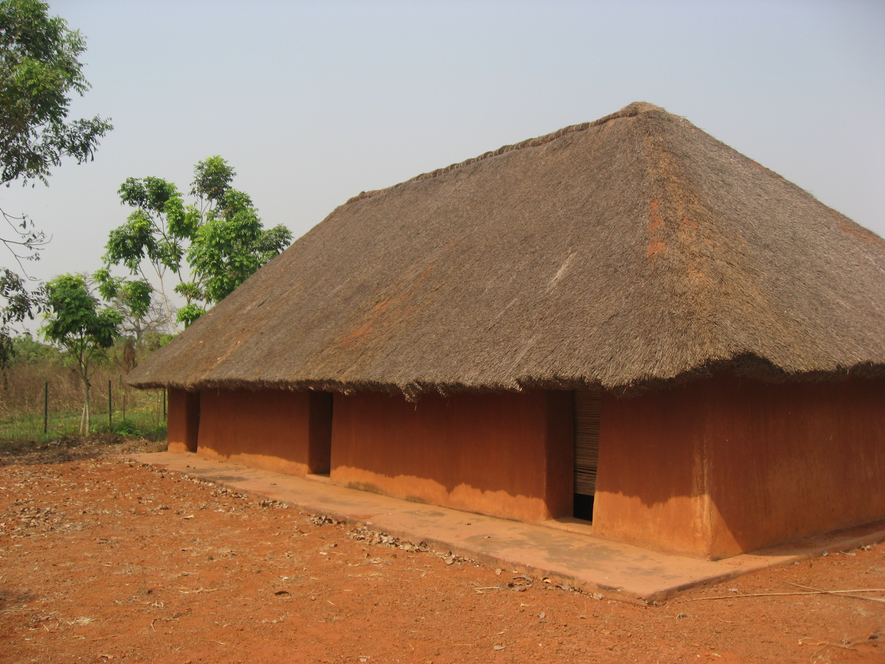 IMG_9165, (Royal palace at Abomey, Benin) Abomey